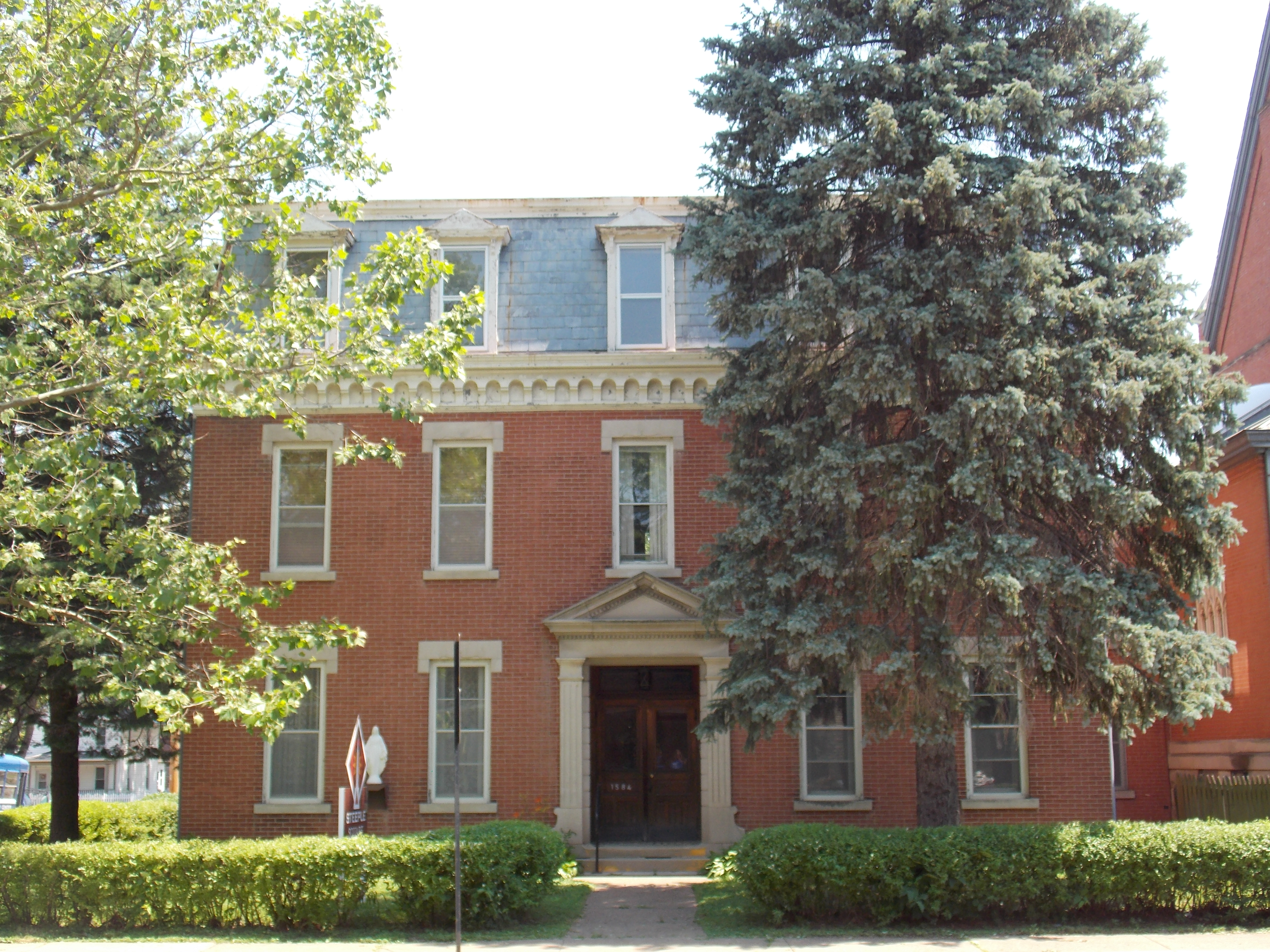 The former rectory at St. Mary's Catholic Church in Dubuque, Iowa.